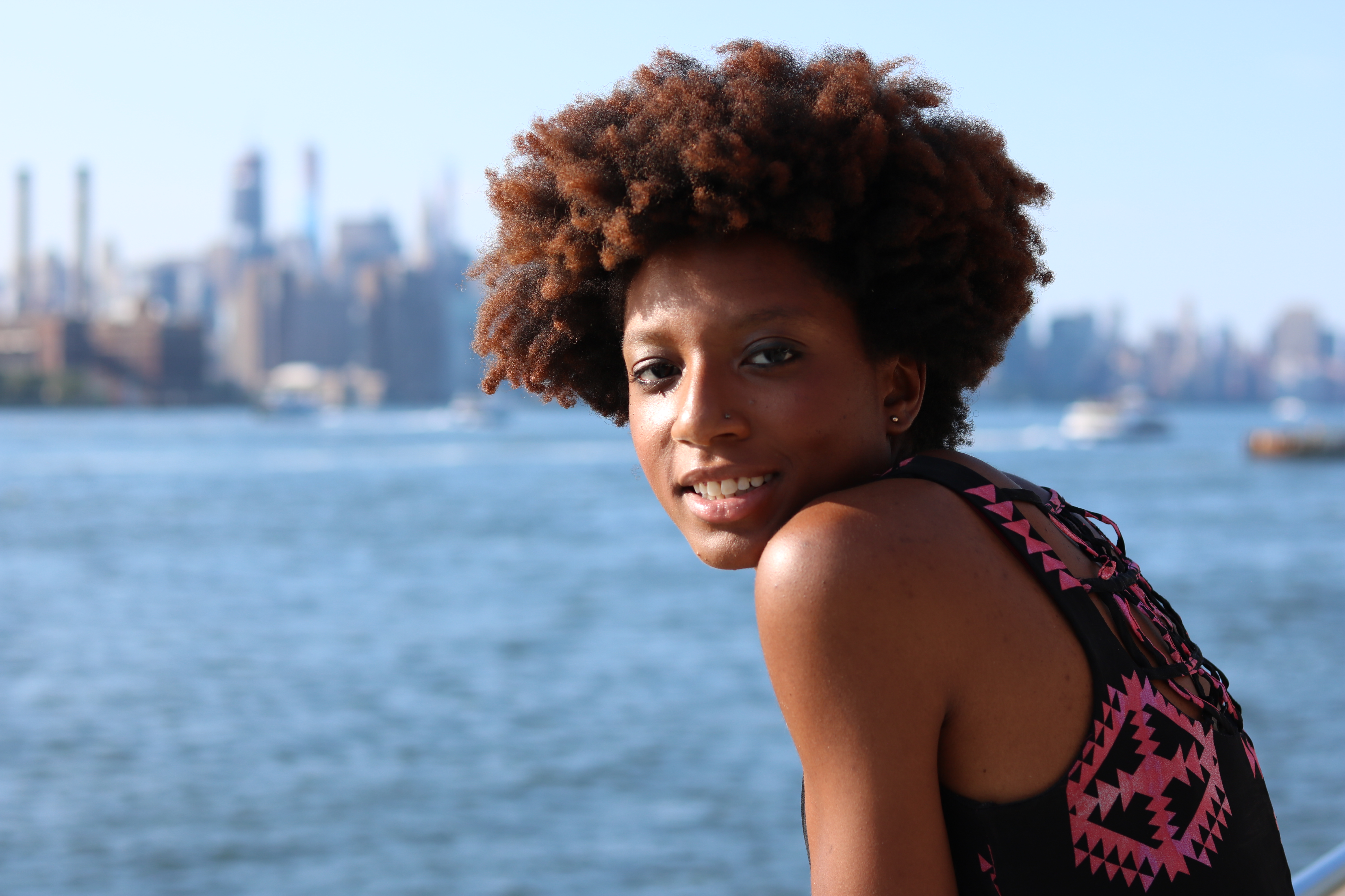 Chloe Valdary